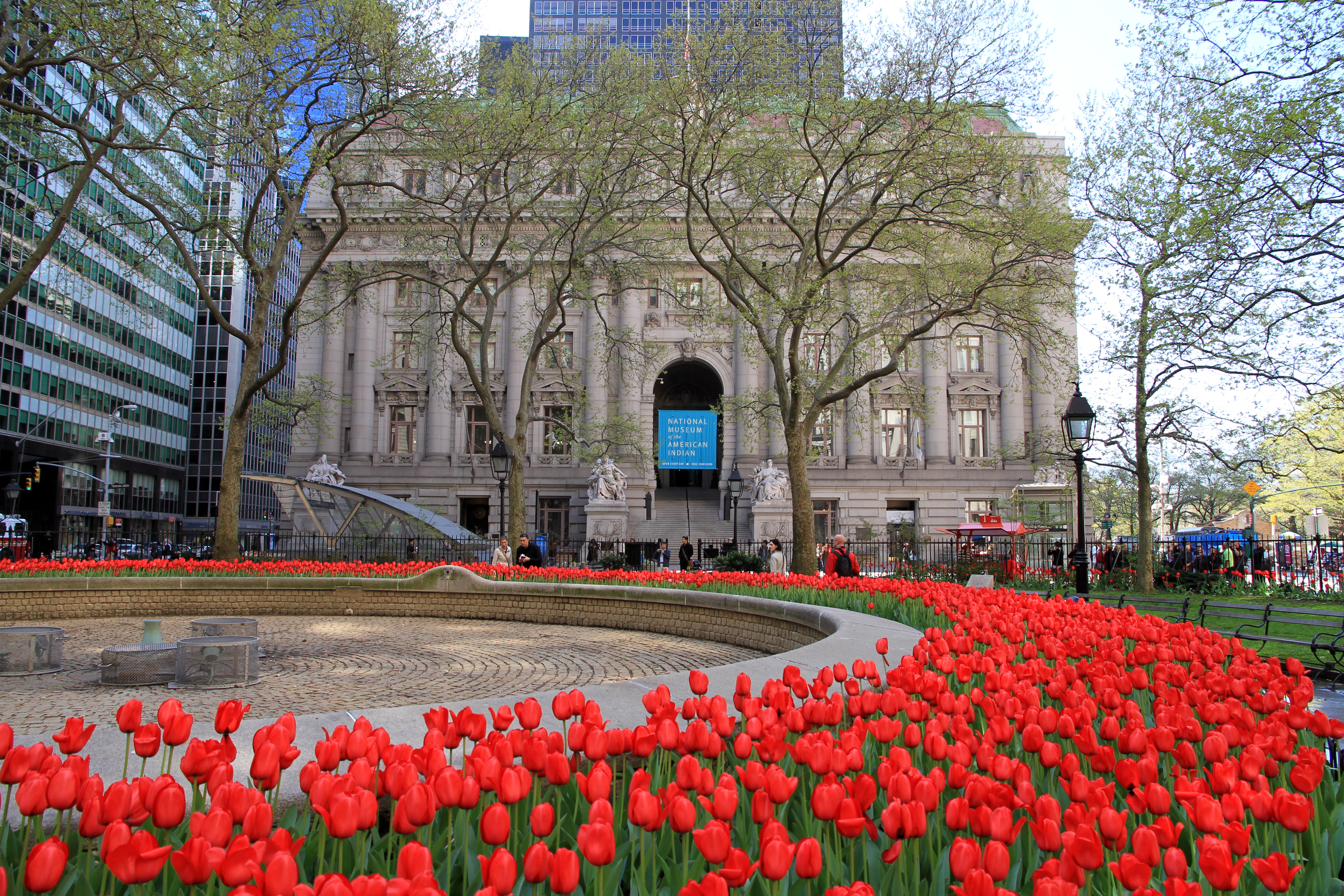 View from Bowling Green